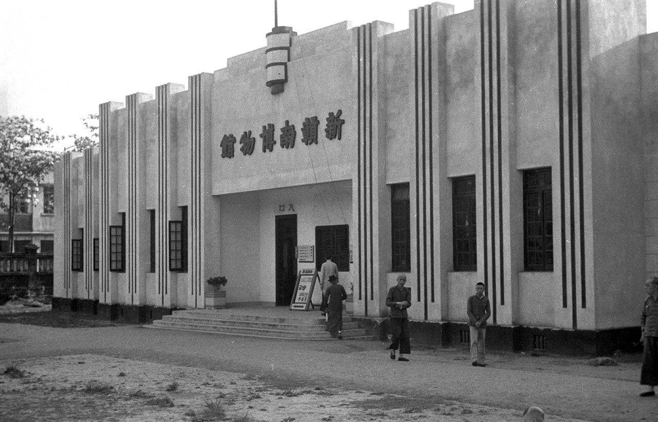 Gannan during the early 1940s. Chiang Ching-kuo was appointed as commissioner of Gannan Prefecture (贛南) between 1939 and 1945.